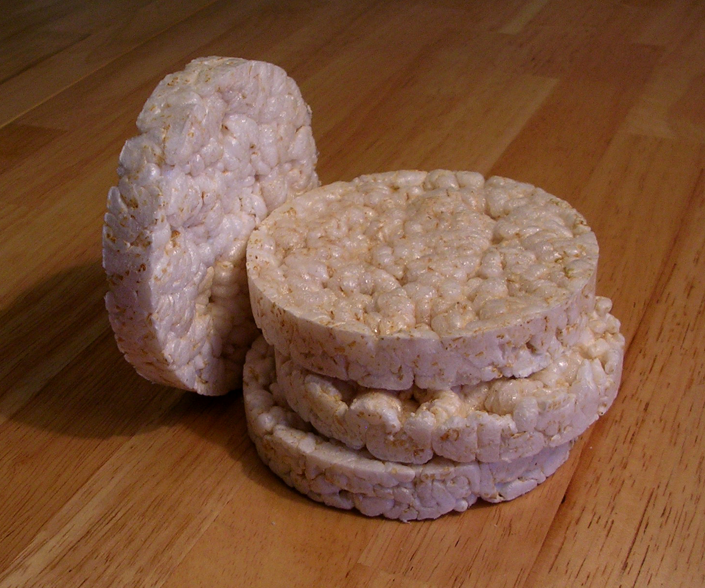 Photograph of American-style puffed rice cakes.